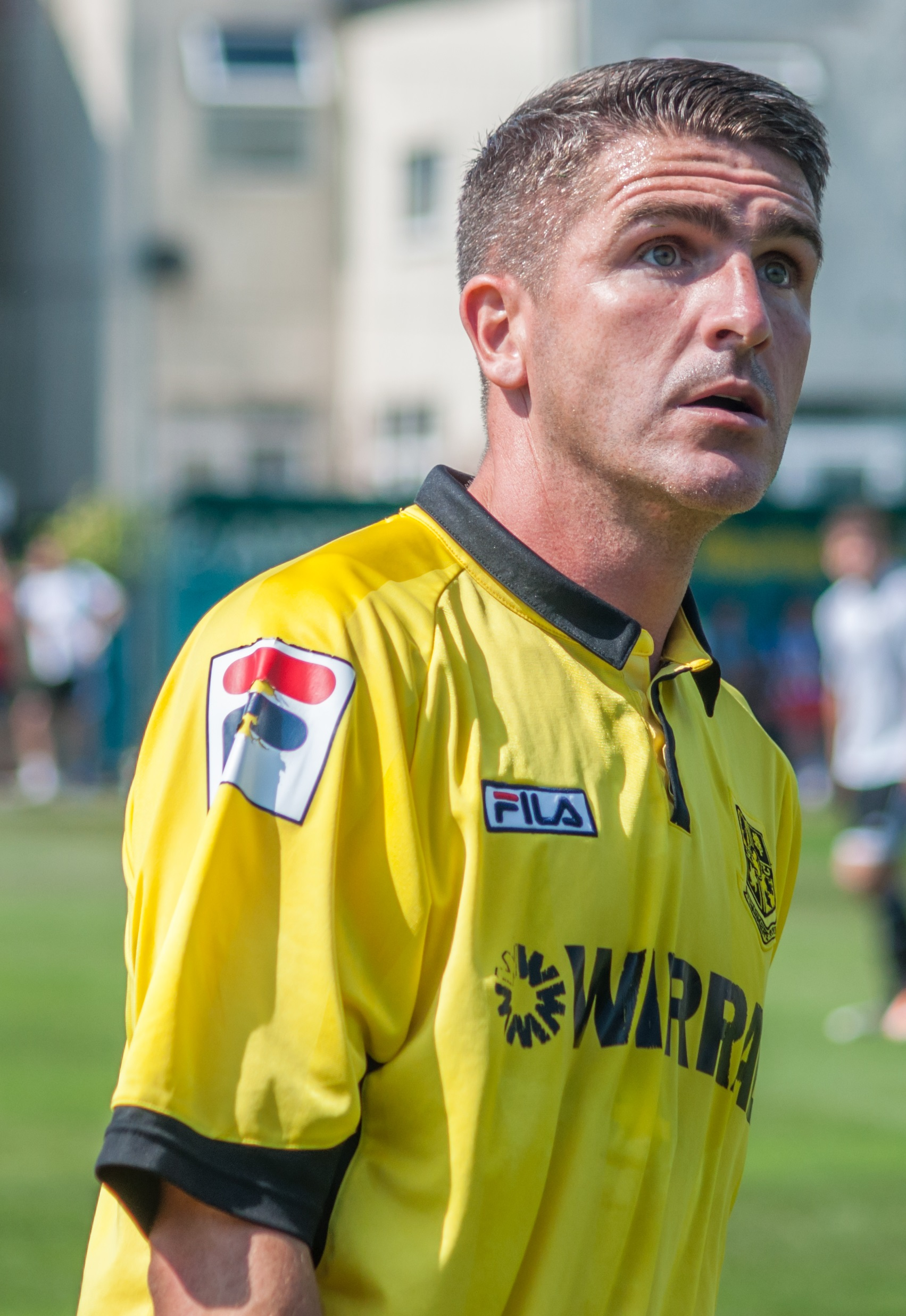 Ryan Lowe. Image cropped from original at flickr.